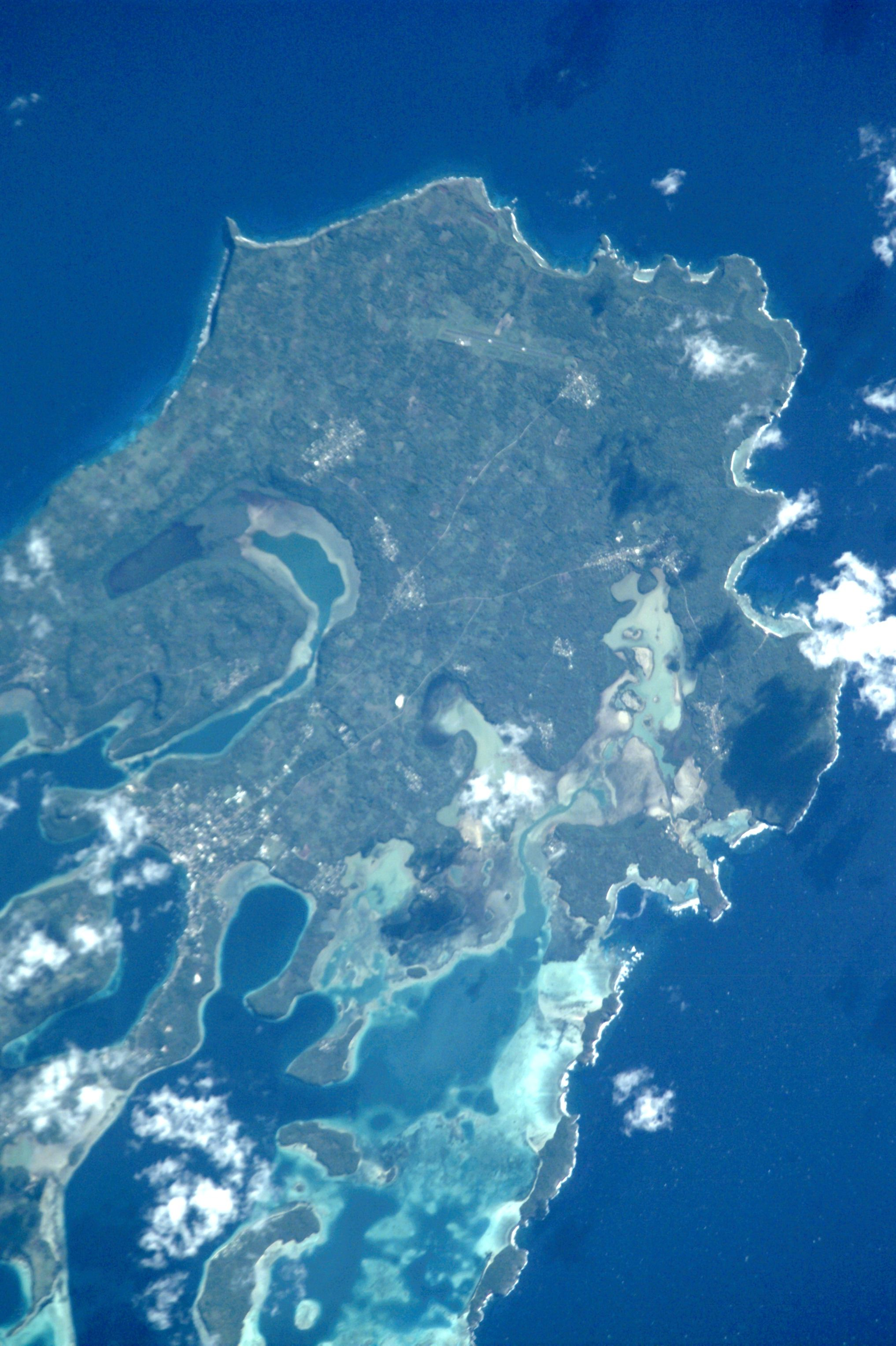 Satellite picture of Vavaʻu island in Tonga.